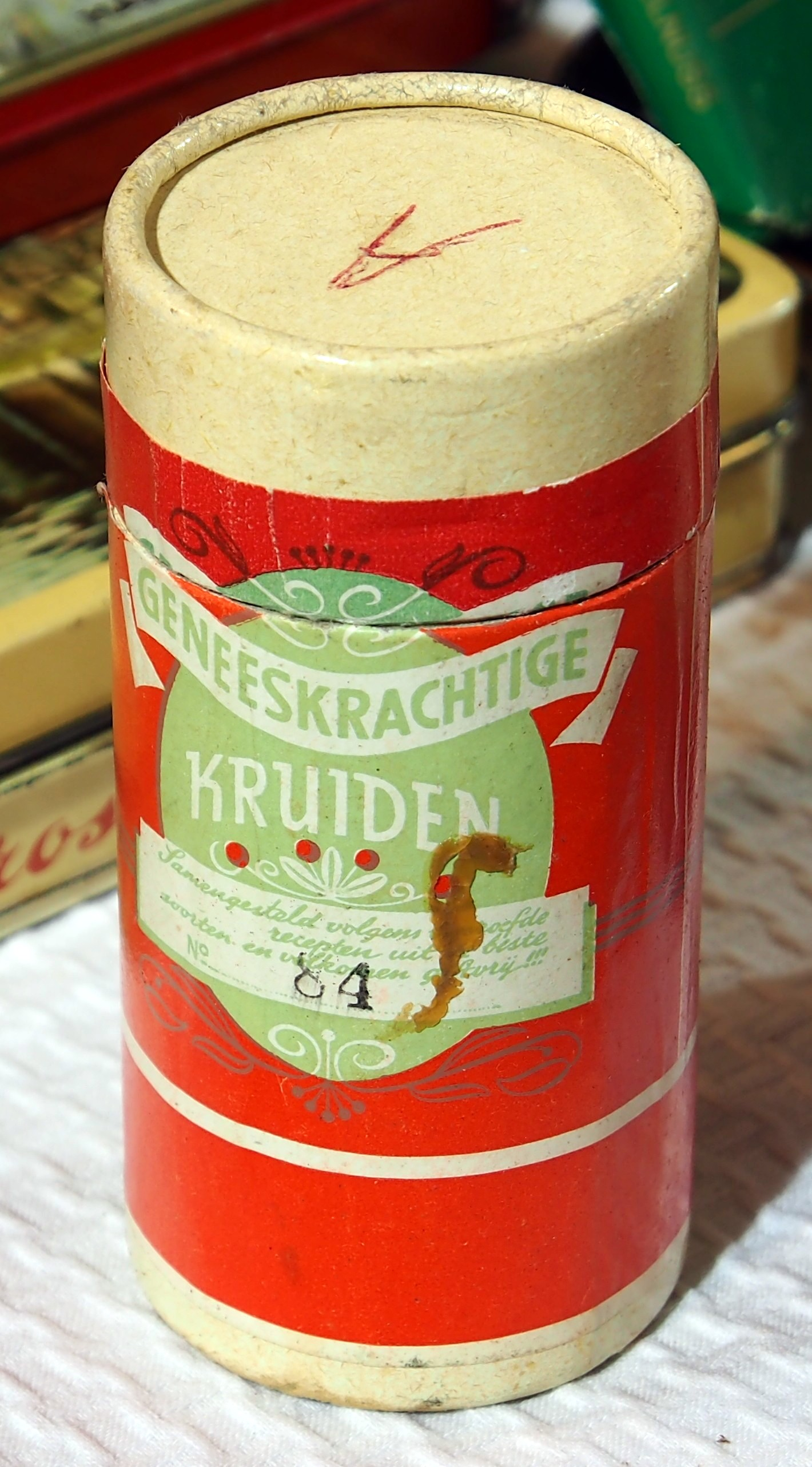 Old product that is not sold/produced anymore!